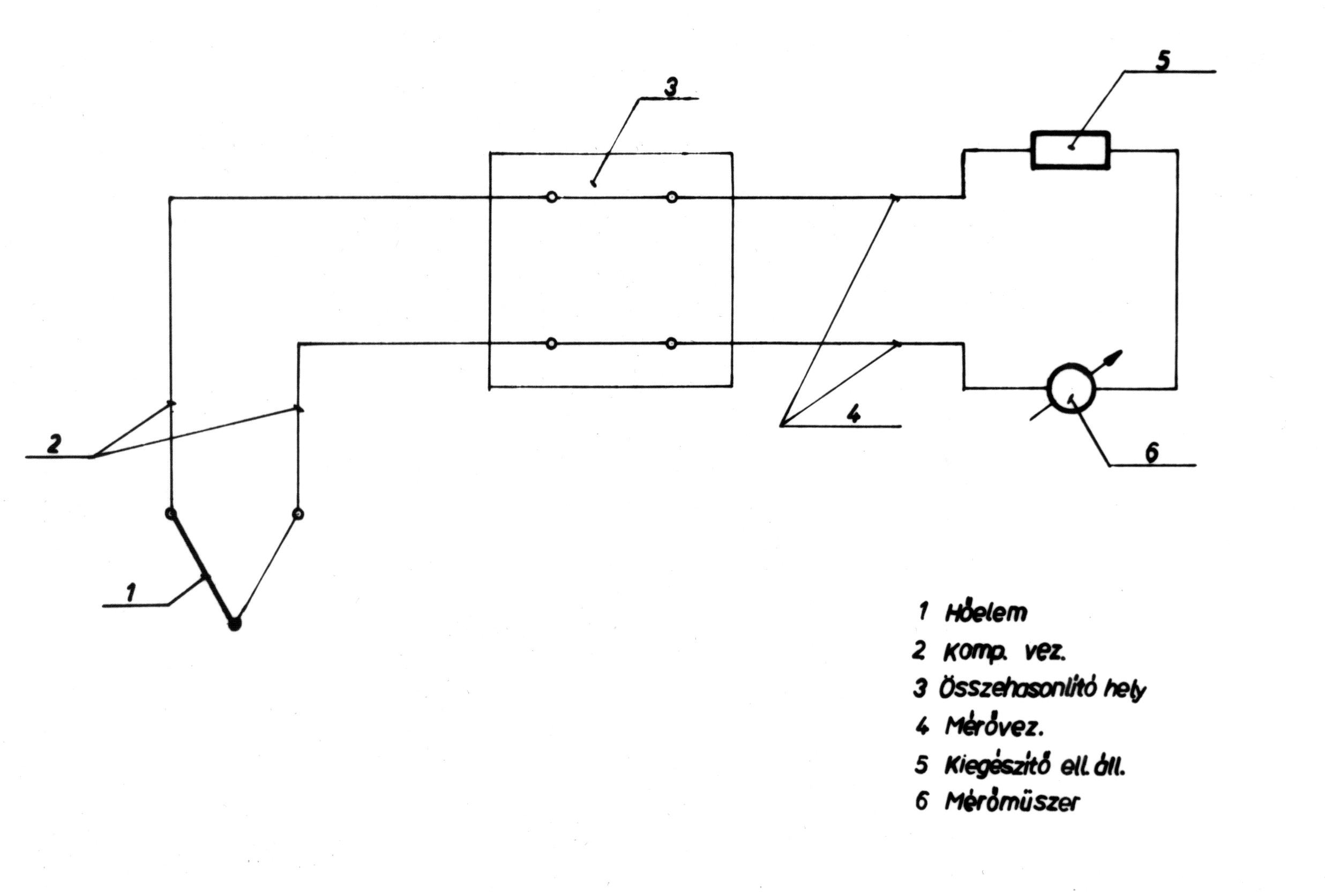 Thermocouple measurement principle diagram